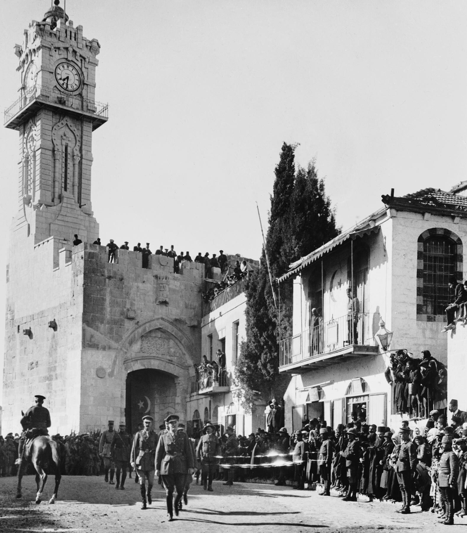 General Sir Edmund Allenby entering the Holy City of Jerusalem on foot 1917 to show respect for the holy place.